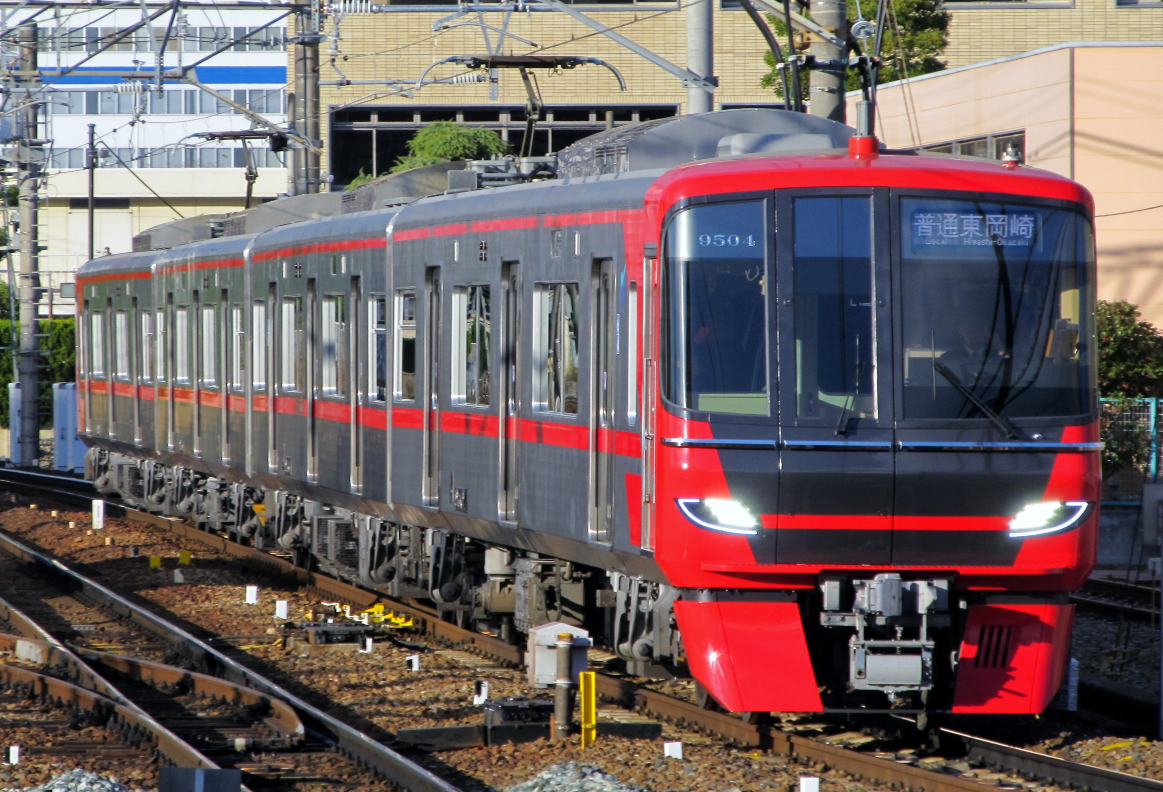 Meitetsu 9500 series. Bound for Higashi Okazaki.